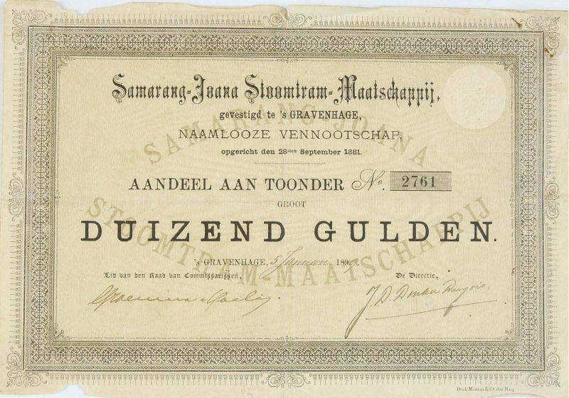 The document consist of three parts: Share (a) a sheet of coupons (b), Statement (c) .. A share of the Samarang-Joana Tramway Company